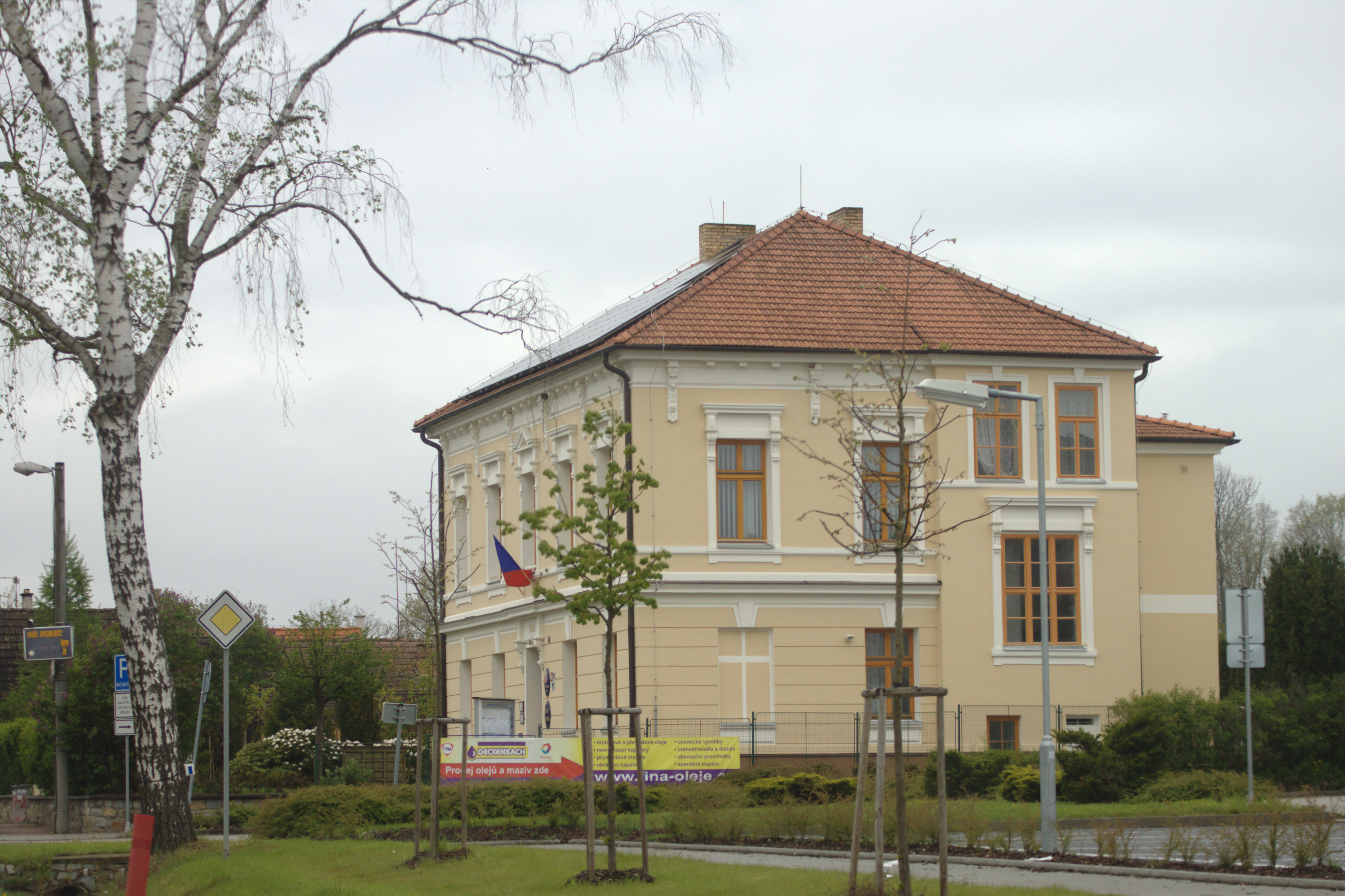 Town hall in the town of Homole near České Budějovice, South Bohemian Region, CZ